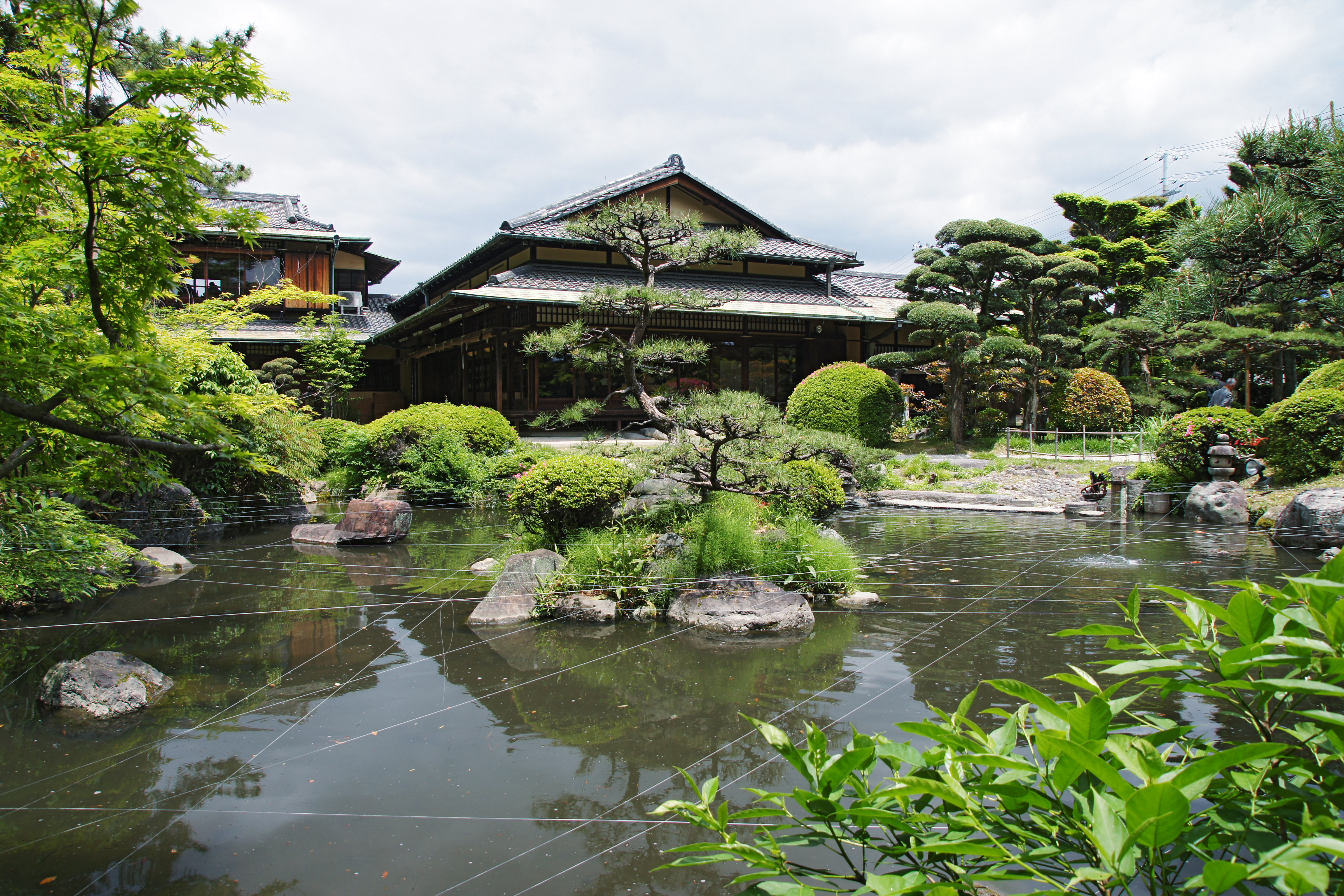 Gofuso in Kishiwada, Osaka prefecture, Japan